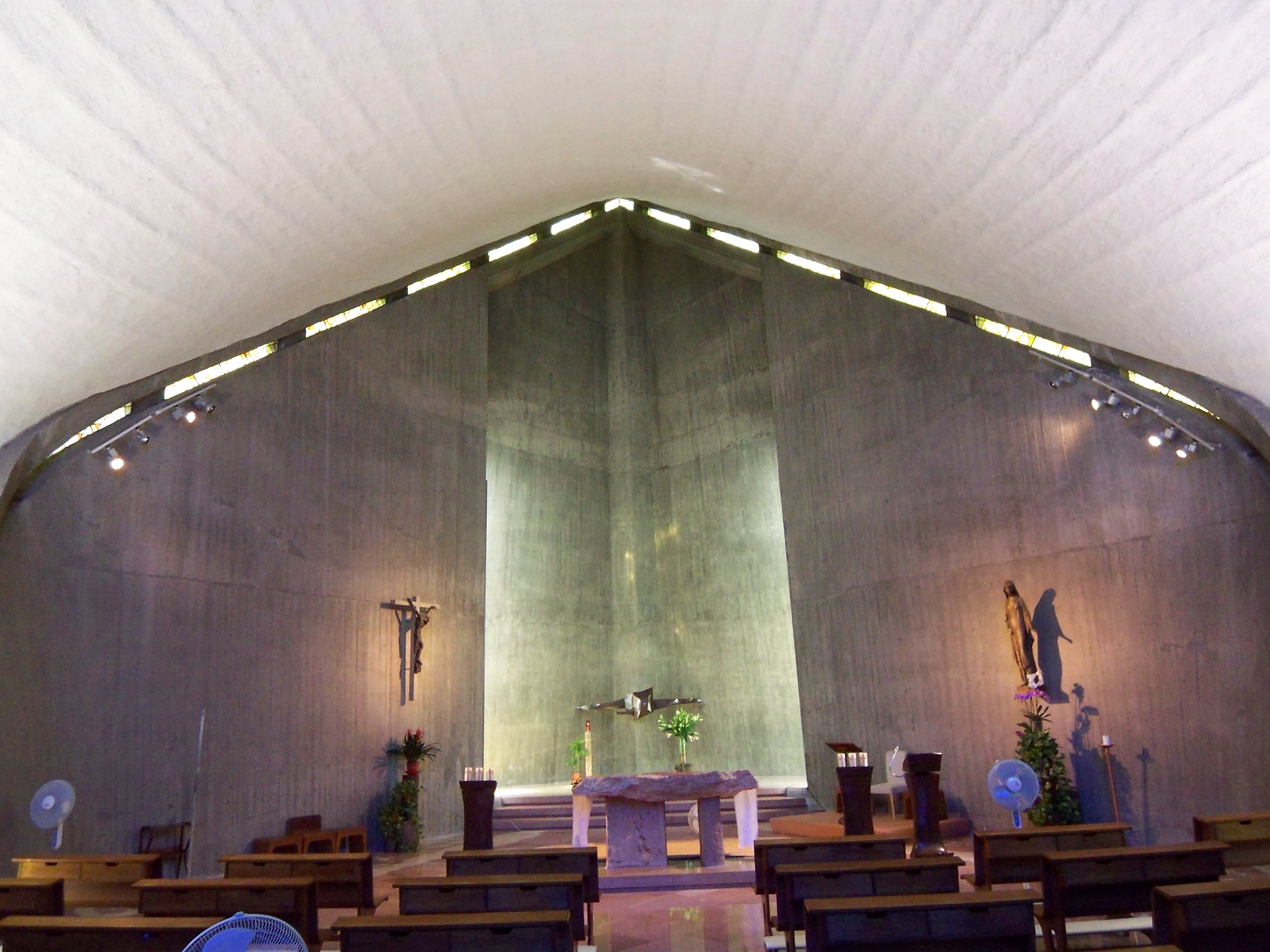 Interior view of the chapel "Suore di San Paolo di Chartres", via della Vignaccia 193, Roma, Italy (Built 1966-68, Architect Silvio Galizia)